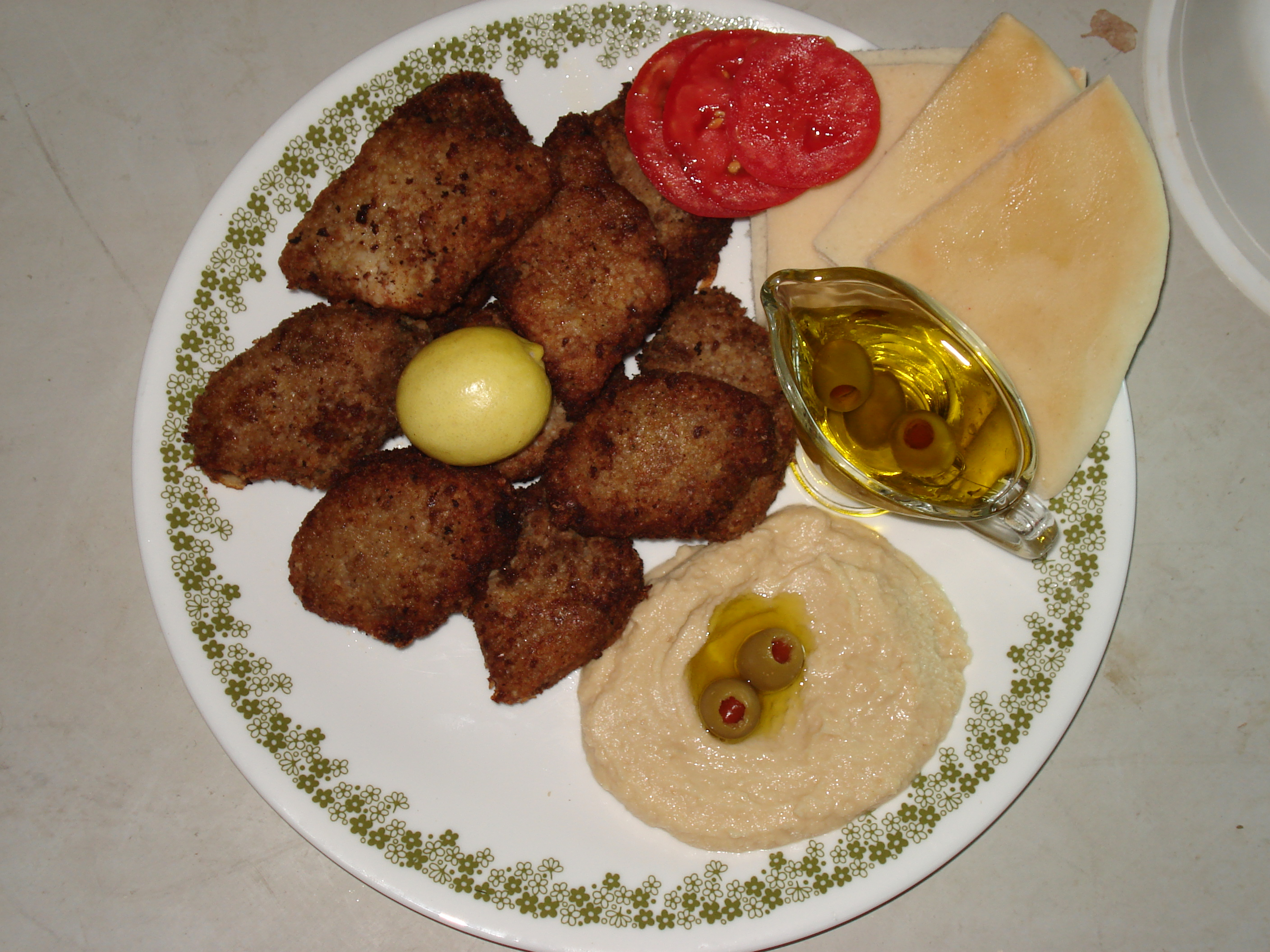 Kibbeh, an iraqi dish